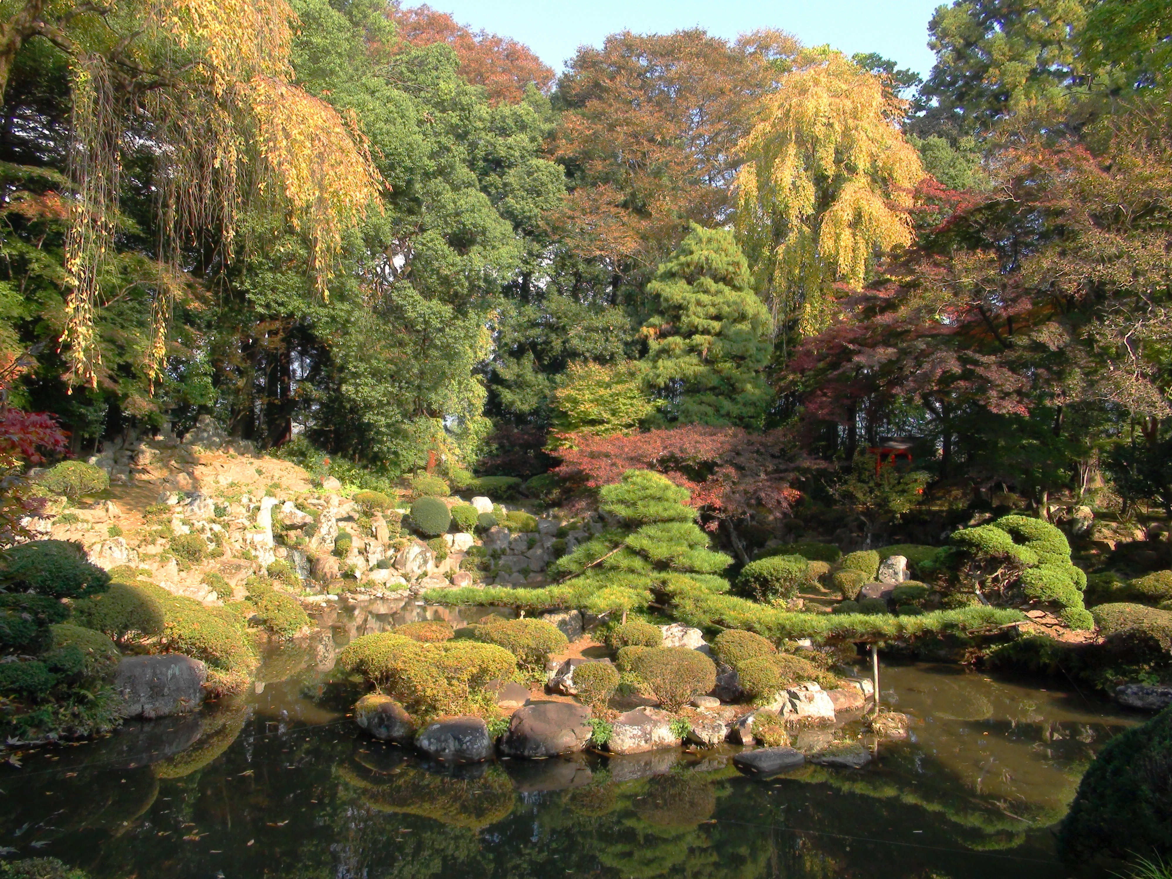 Erinji garden Places of Scenic Beauty